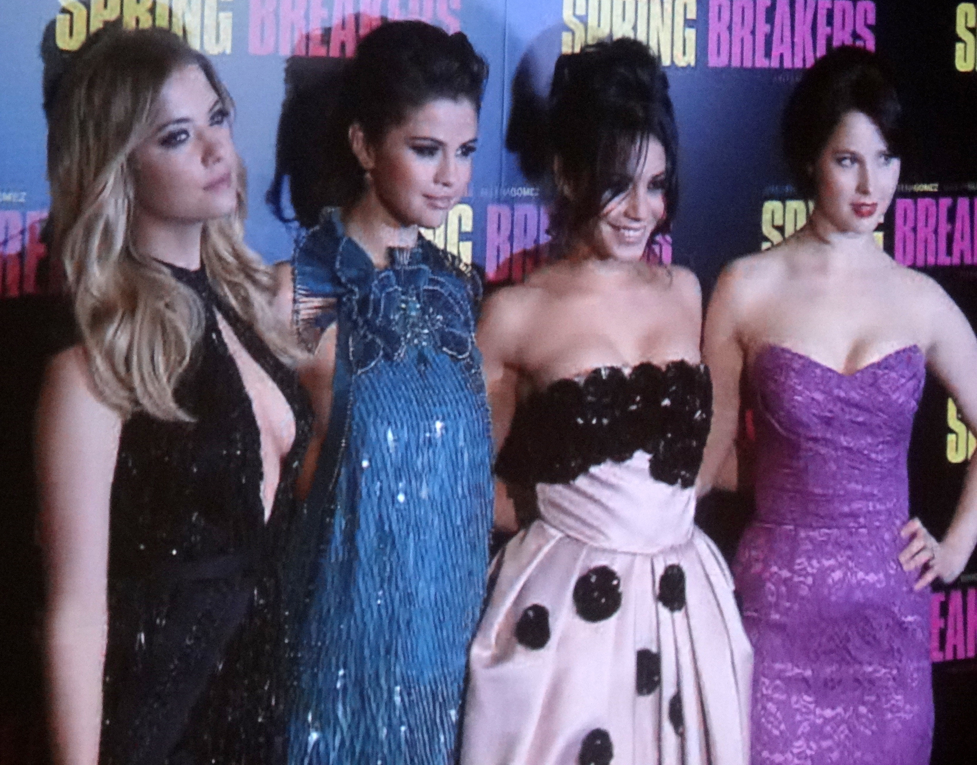 Spring Breakers Cast: Vanessa Hudgens, Selena Gomez, Ashley Benson, Rachel Korine at the AVP Paris Le Grand Rex (February 2013).